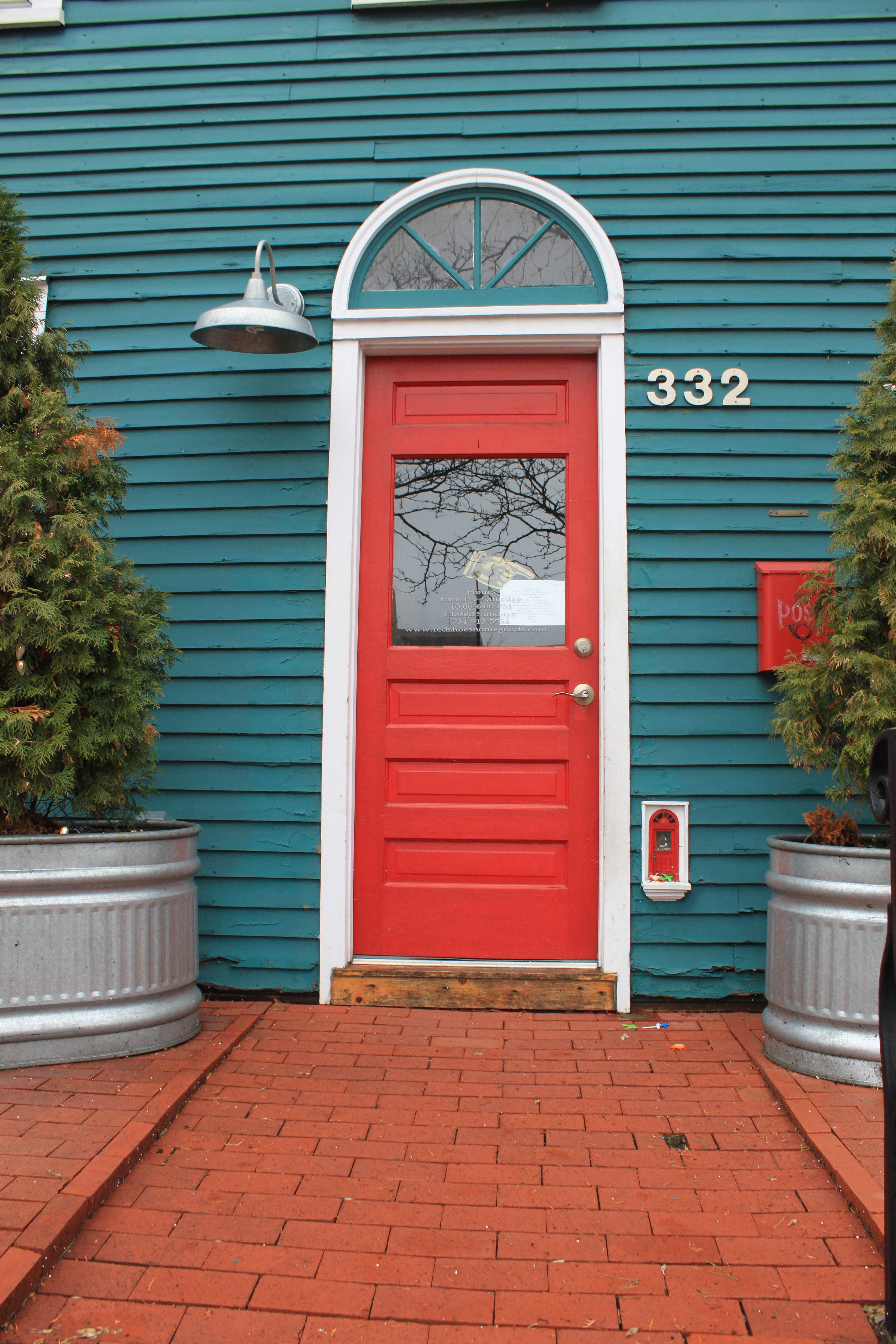 Fairy door at Red Shoes, 332 South Ashley, Ann Arbor, Michigan